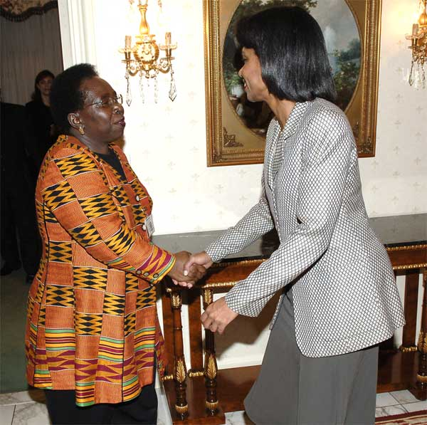 Nkosazana Zuma, foreign minister of South Africa, and Condoleezza Rice.